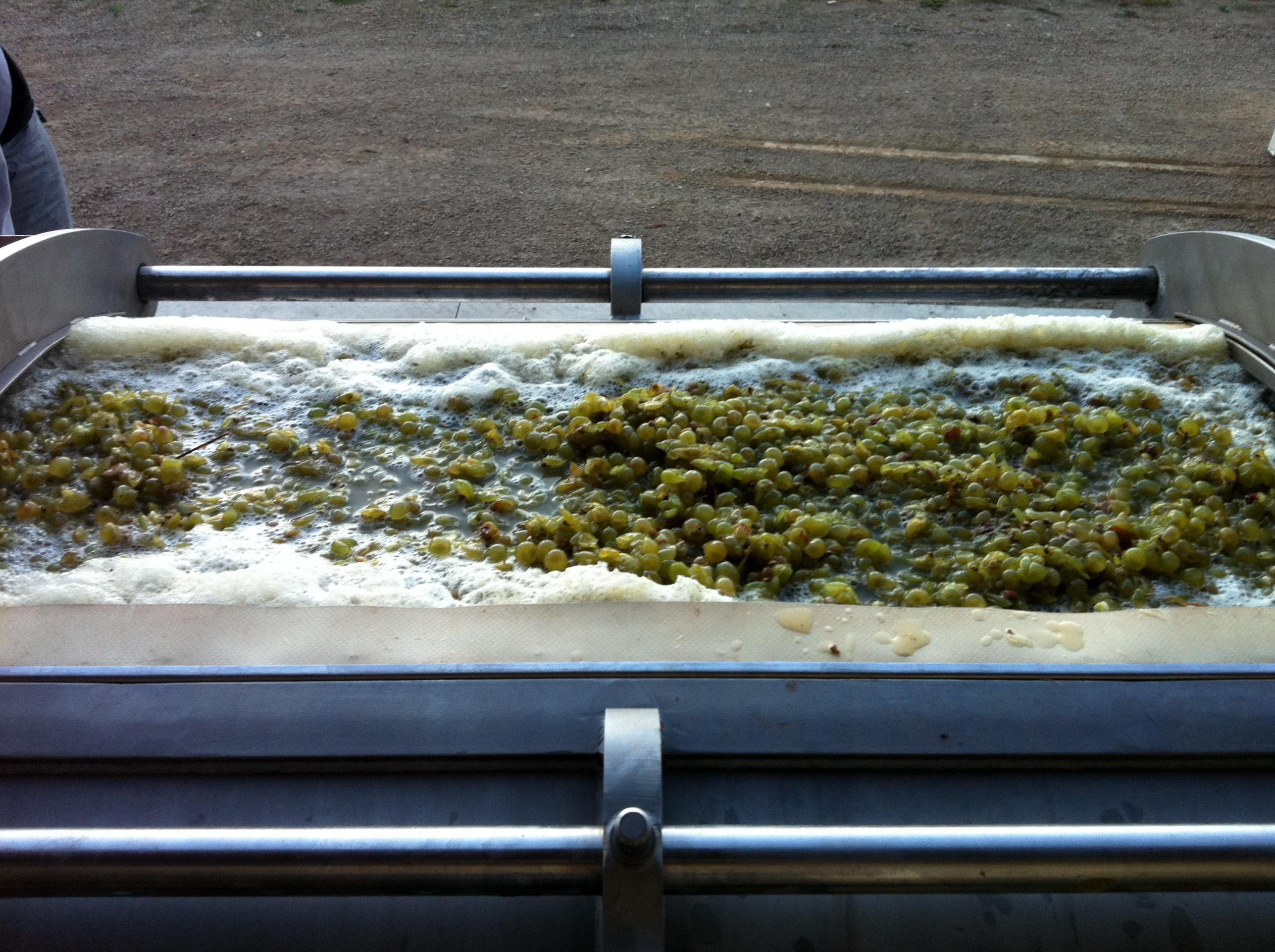 From author "The Press - Chardonnay 2011 Harvest in the Okanagan Valley in BC, Canada at Le Vieux Pin and La Stella"